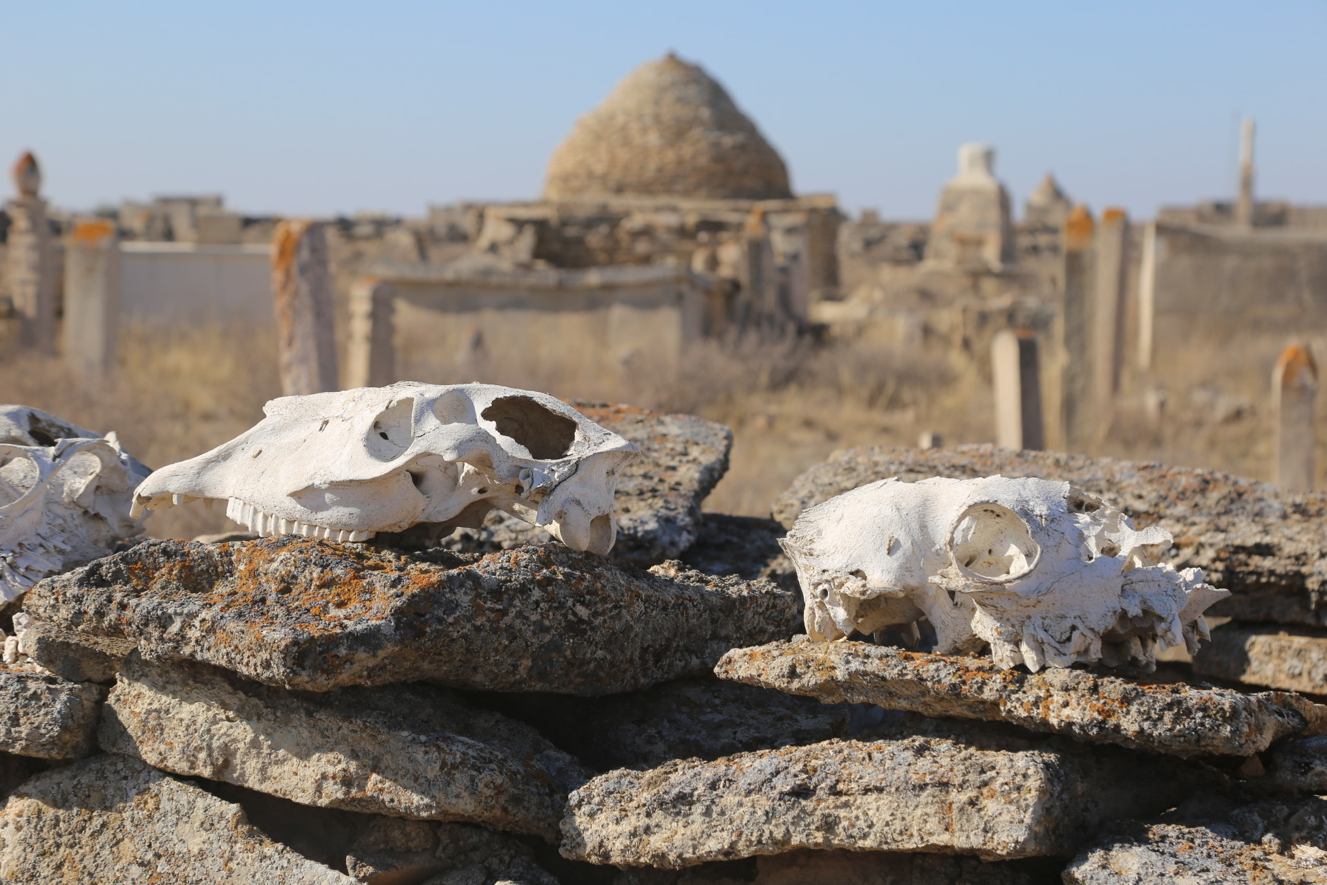 Sisem-Ata